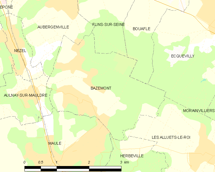 Map of French municipality Bazemont